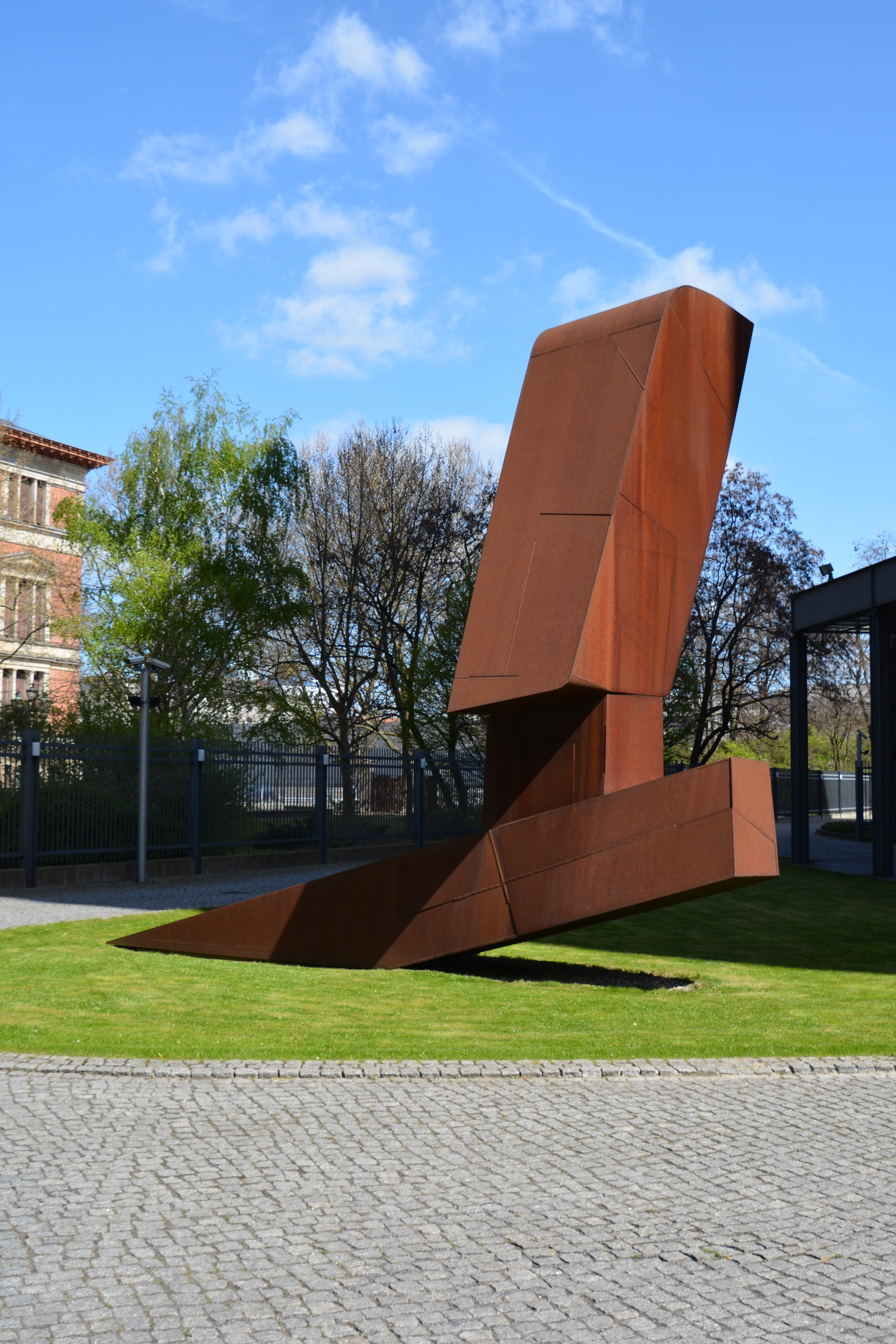 Franz Bernhard's Der Kopf, corten steel, 2000, Bundeministerium für wirtschaftliche Zusammenmarbeit und Entwicklung, Berlin-Kreuzberg